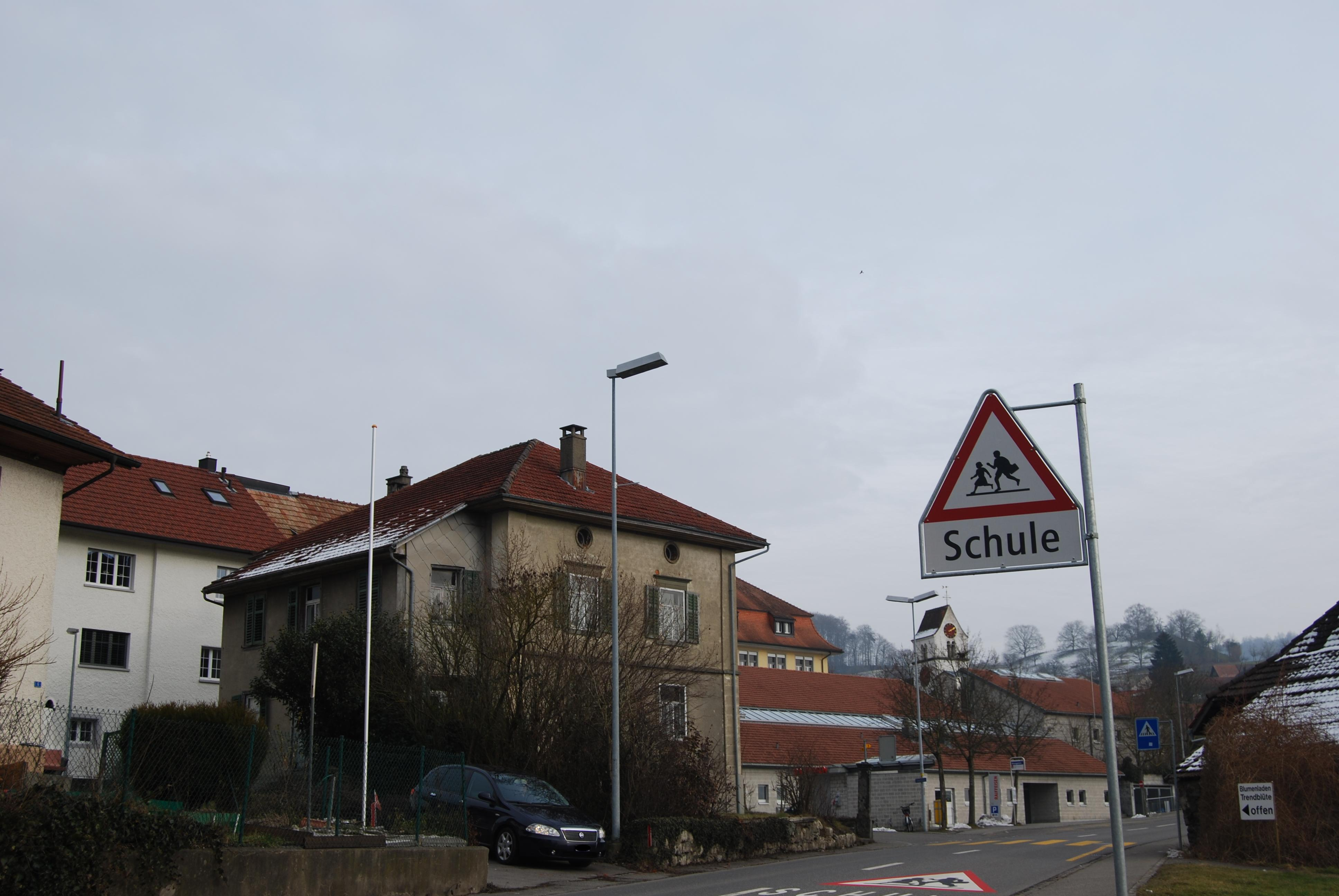 Village center of Egliswil with the church tower in the back, canton of Aargau, SwitzerlandEsperanto: Vilaĝocentro de Egliswil kun la preĝejturo en la fono, Kantono Argovio, Svislando